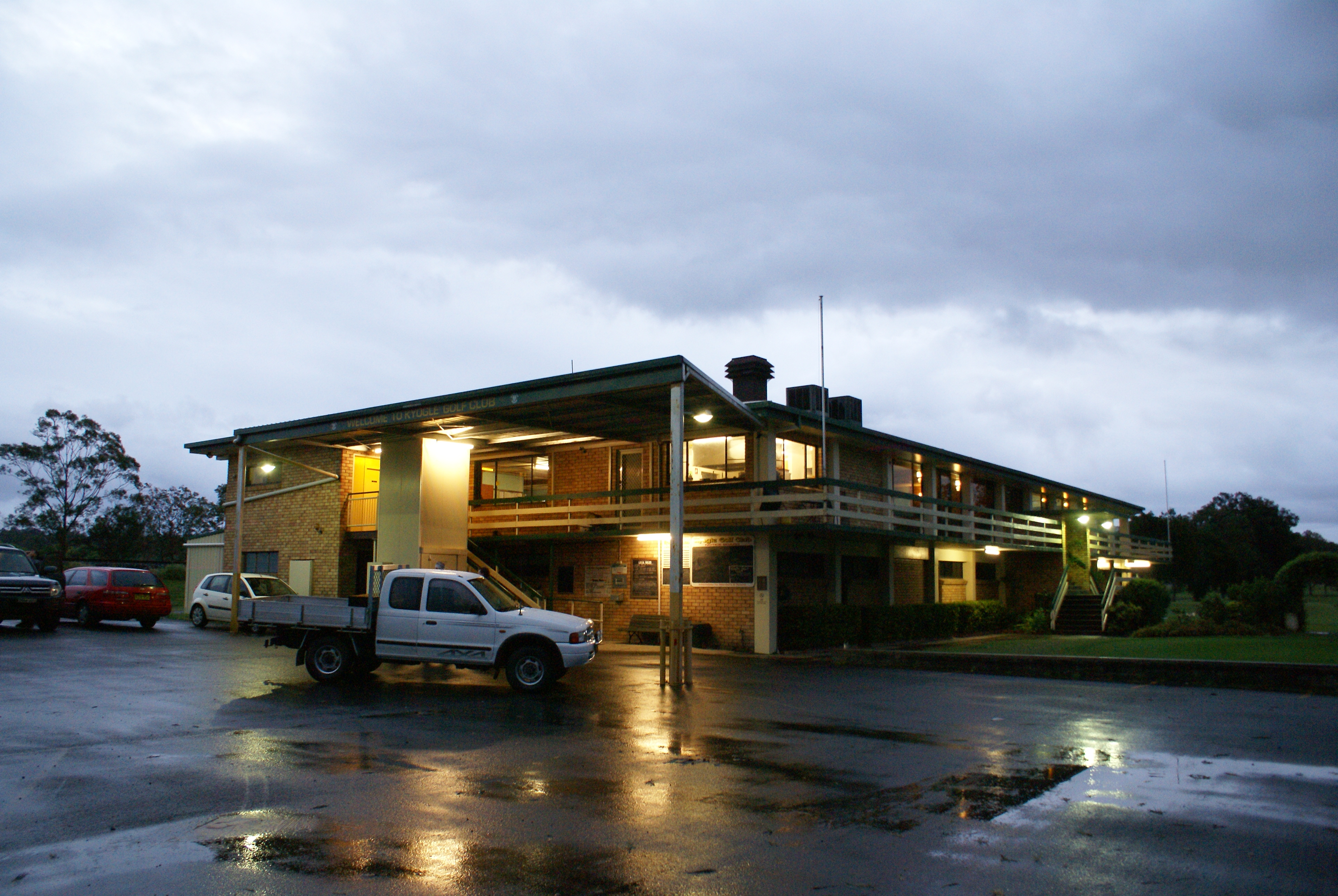 Kyogle Golf Club - Club House after the rain